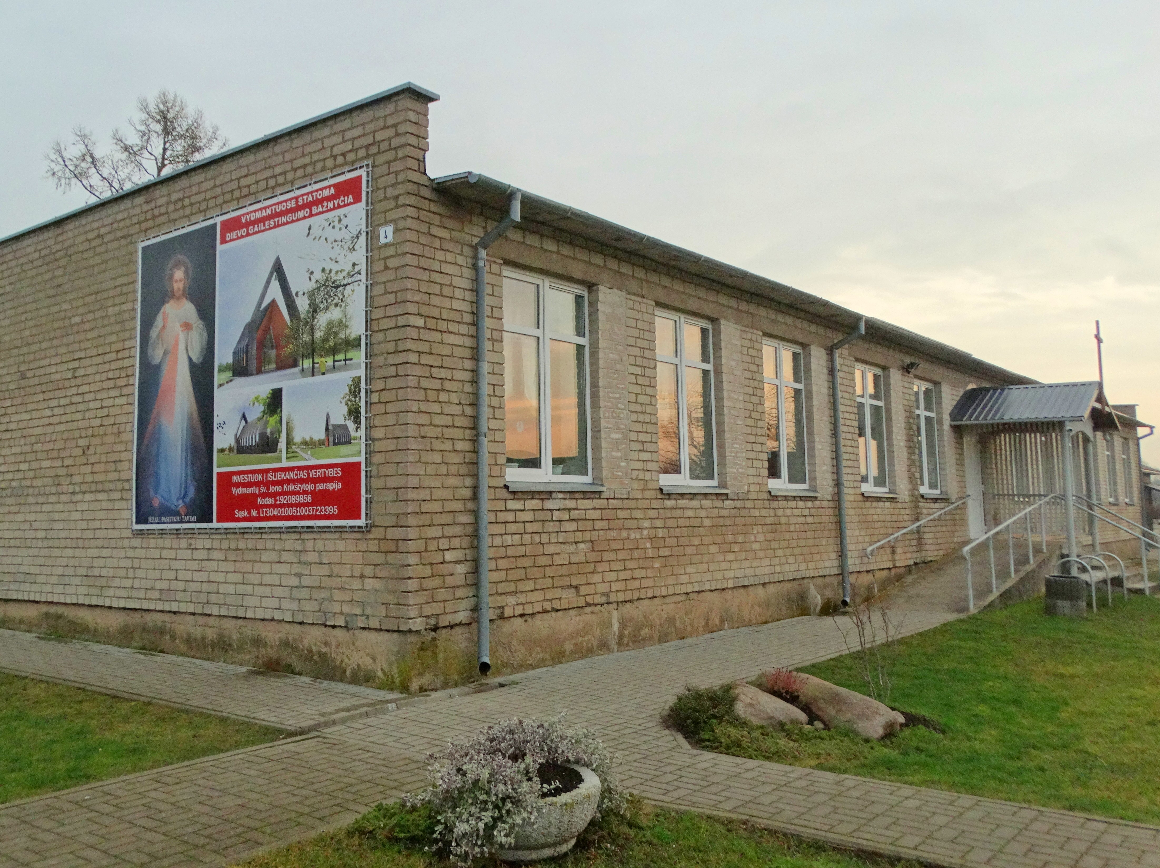 Chapel of St. John the Baptist, Vydmantai, Kretinga District, Lithuania